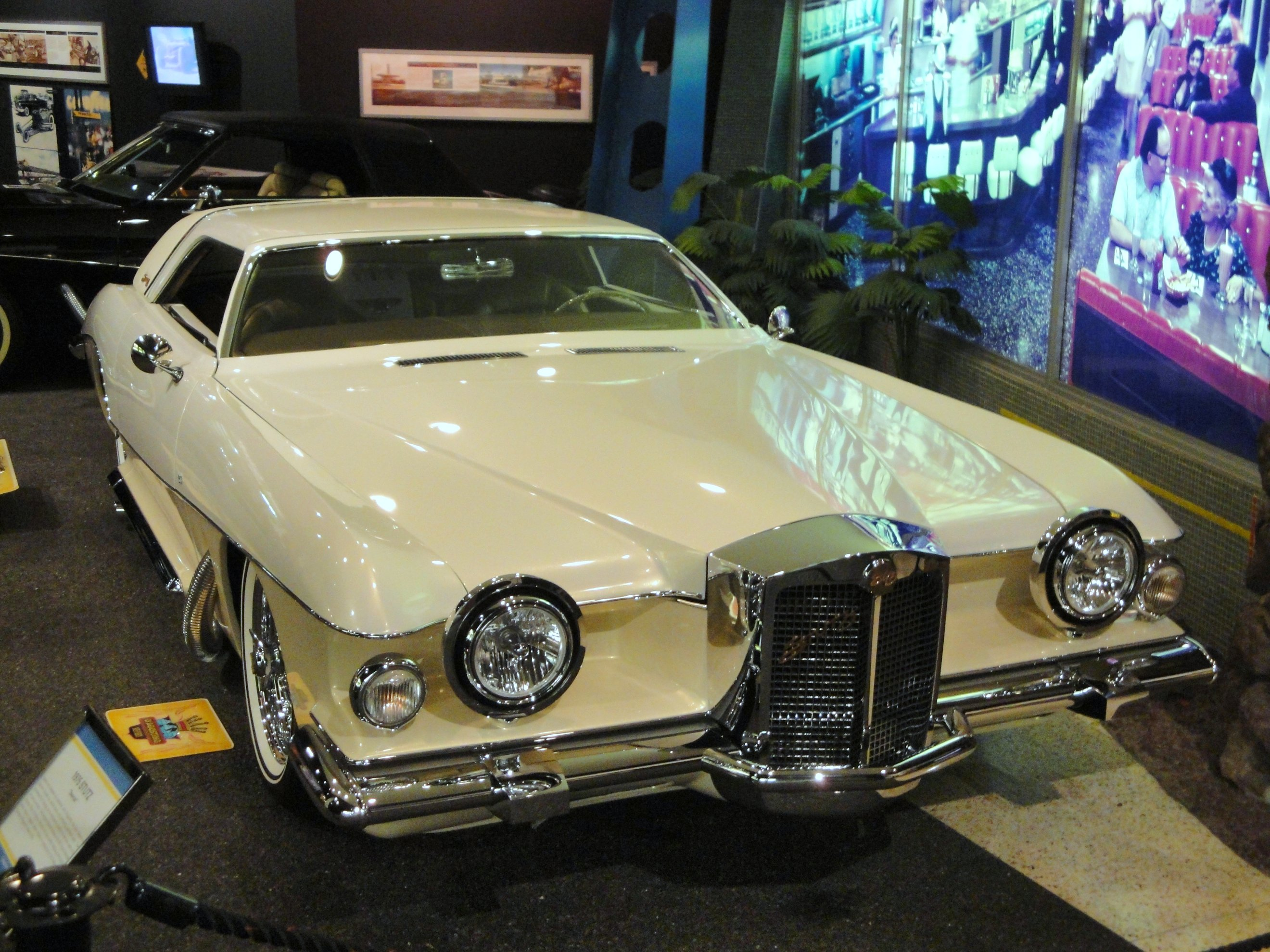 Stutz Bearcat (1975), a Blackhawk III customized by John D'Agostino